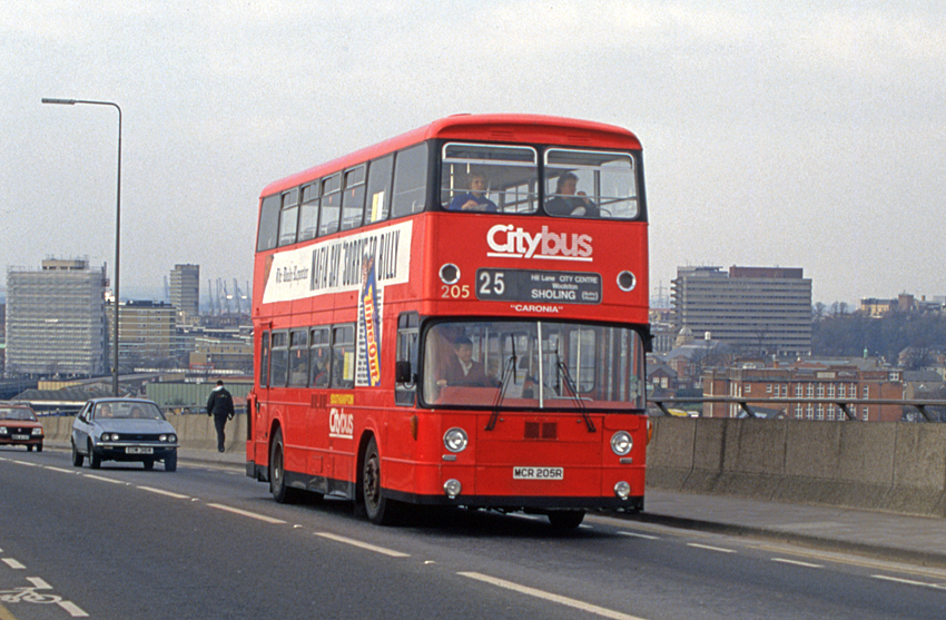 Southampton Citybus Leyland Atlantean AN68 East Lancs (MCR 205R) crossing Itchen Bridge. Fleet number 205 Caronia. Scanned from a Fujichrome 35mm slide.